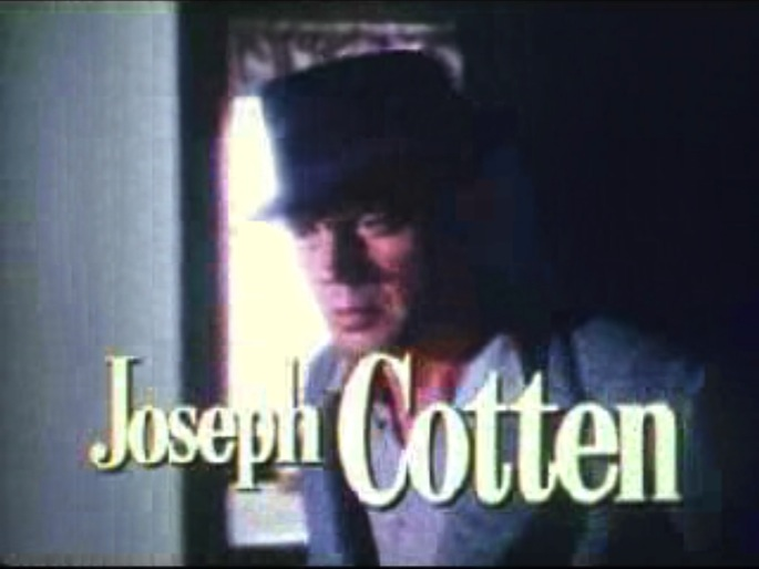 Joseph Cotten is introduced in the theatrical trailer of the 1953 film Niagara directed by Henry Hathaway.